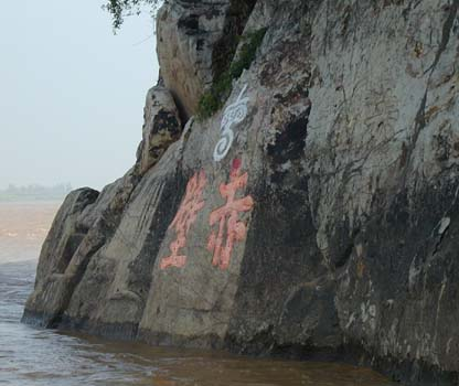 Photo of the traditional site of Chibi, south of Wulin, taken in 2003. Image:Xich Bich.jpg